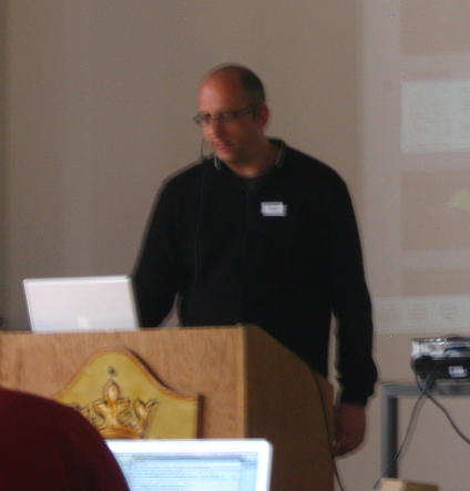 H.Schatz delivering a lecture at the Net11 JINA/TUM school.